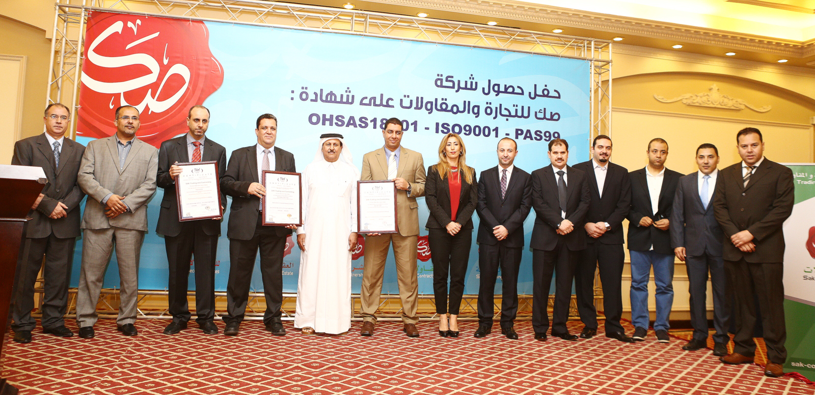 SAK Trading & Contracting Company Receives 3 Prestigious International Accreditations in Management and Quality and Safety